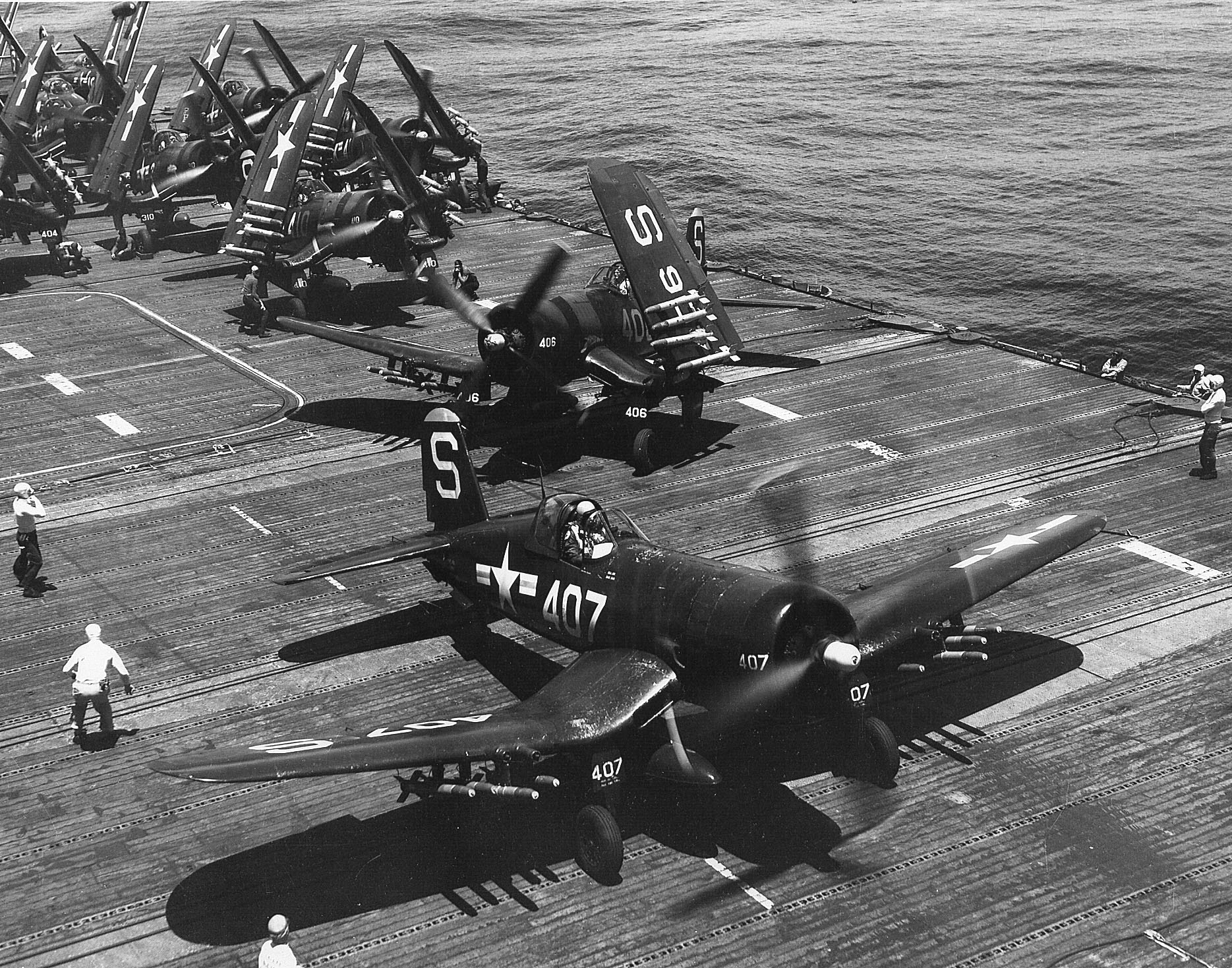 U.S. Navy Vought F4U-4B Corsairs of Fighter Squadron 54 (VF-54) "Copperheads" armed with 5-inch High-Velocity Aircraft Rockets (HVAR) are spotted for launch on board the aircraft carrier USS Valley Forge (CV-45) operating off Korea. VF-54 was assigned to Carrier Air Group 5 (CVG-5) aboard the Valley Forge for a deployment to the Western Pacific an Korea from 1 May 1950 to 1 December 1950.